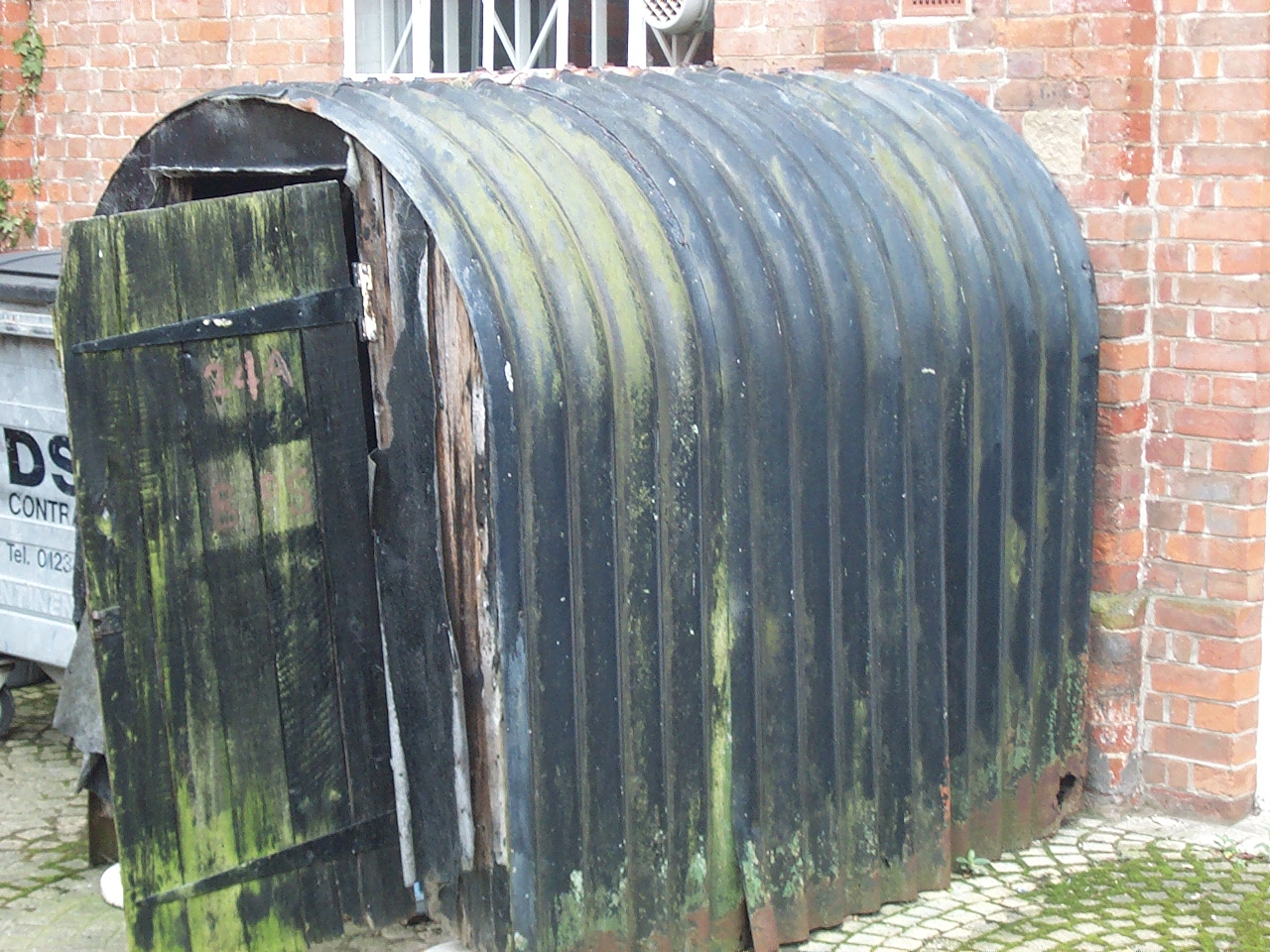 An old and badly rusted Anderson shelter, that has in it's time been converted for use as a garden shed, on display in the courtyard of Bedford Museum, Bedford, Bedfordshire, England.